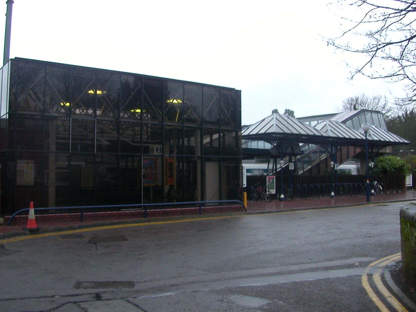 Main building and cycle shelter at Radlett. Photographed on 13th January 2007.